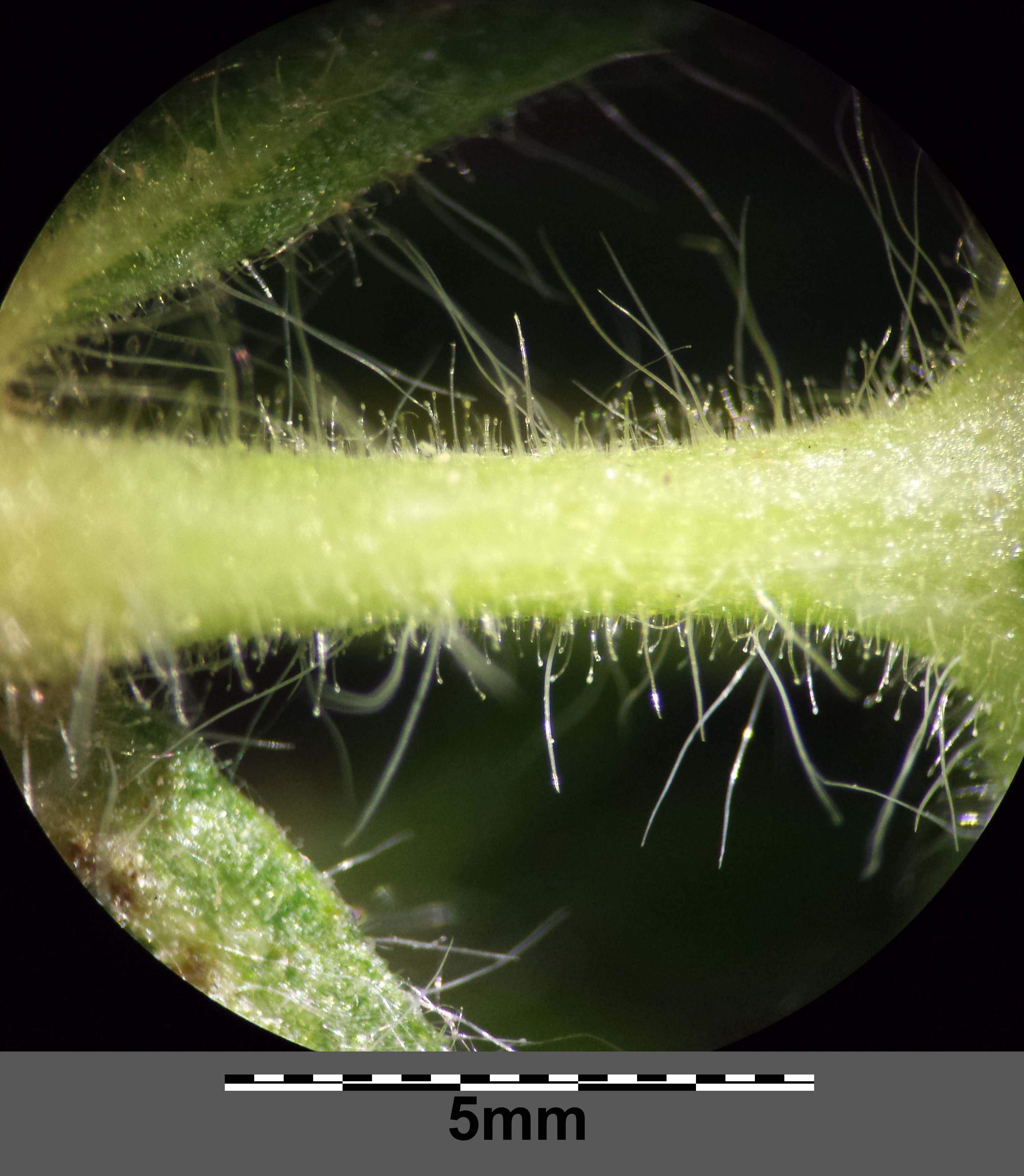 Hirsute pedicel Taxonym: Potentilla recta ss Fischer et al. EfÖLS 2008 ISBN 978-3-85474-187-9 Location: Neue Donau, Vienna-Floridsdorf - ca. 160 m a.s.l. Habitat: dry slope